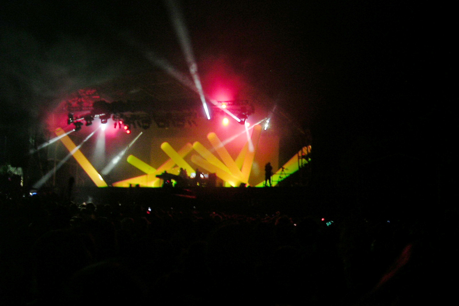 Underworld, seen performing at Bestival 2008, held on the Isle of Wight. They were the closing act for the main stage on Sunday.